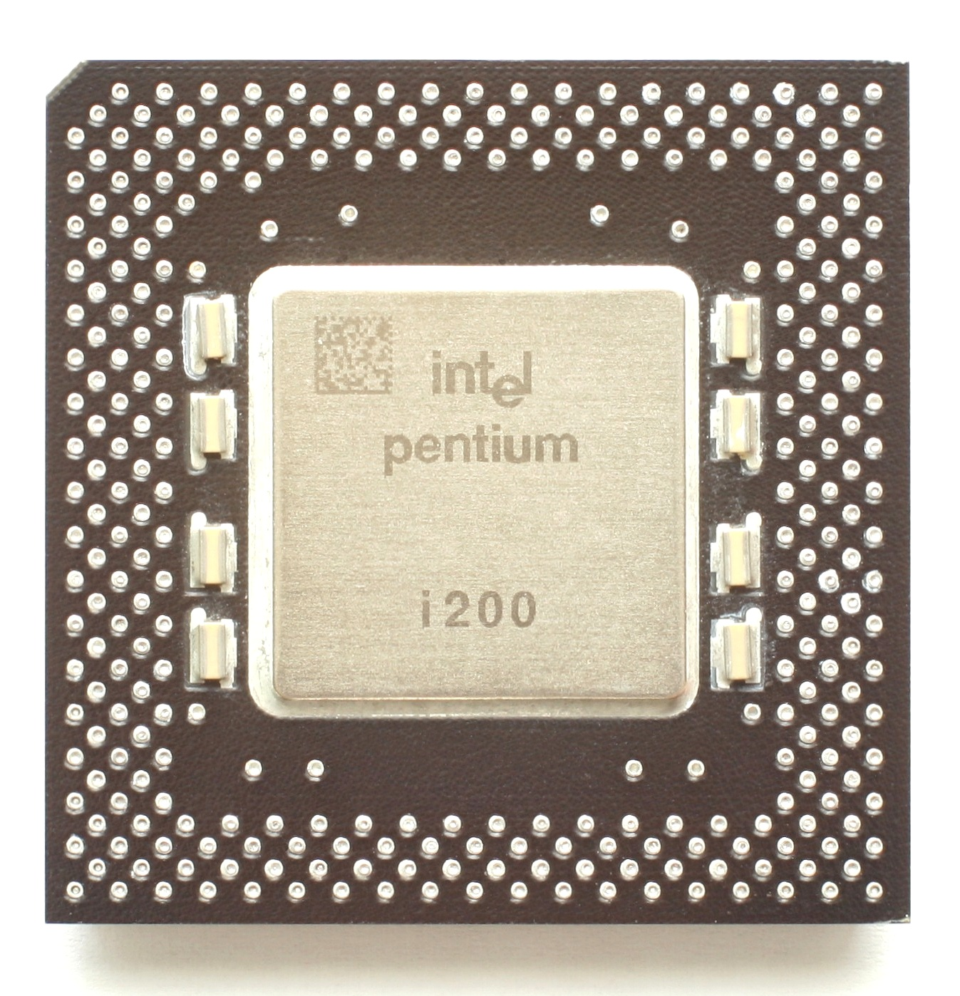 CPU Intel Pentium, 200 MHz